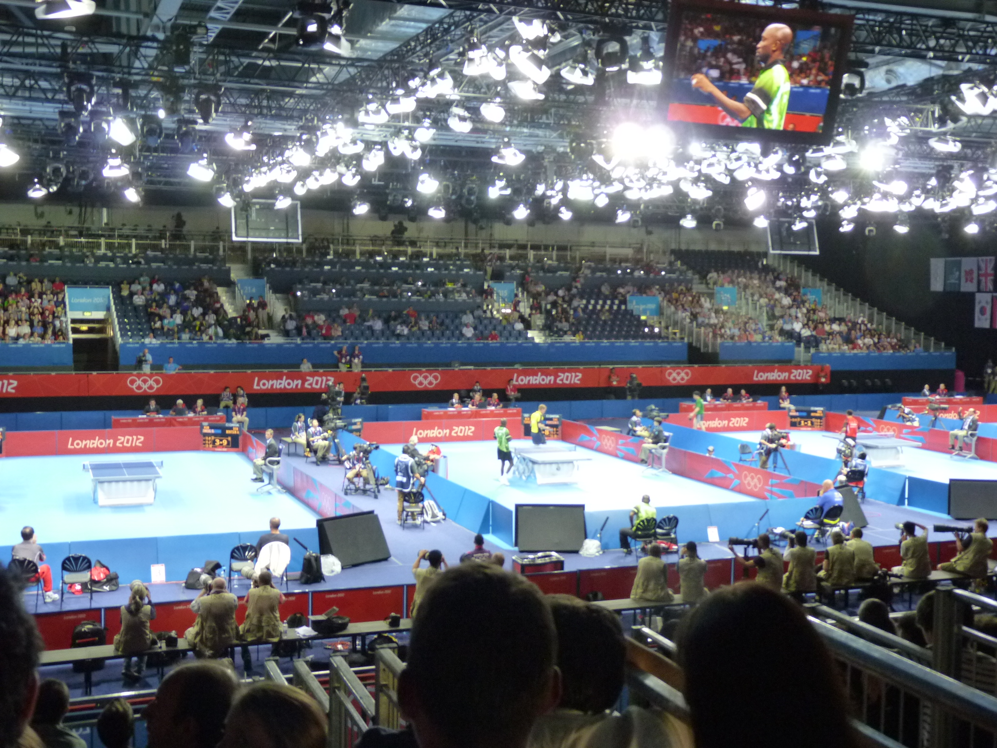 1st round of men's table tennis, ExCel arena, London Olympics, 28 July 2012